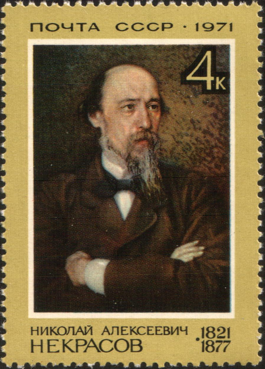 A USSR stamp